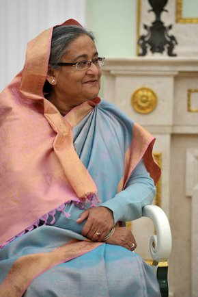 Vladimir Putin held talks with Prime Minister of Bangladesh Sheikh Hasina (Moscow; 2013-01-15).